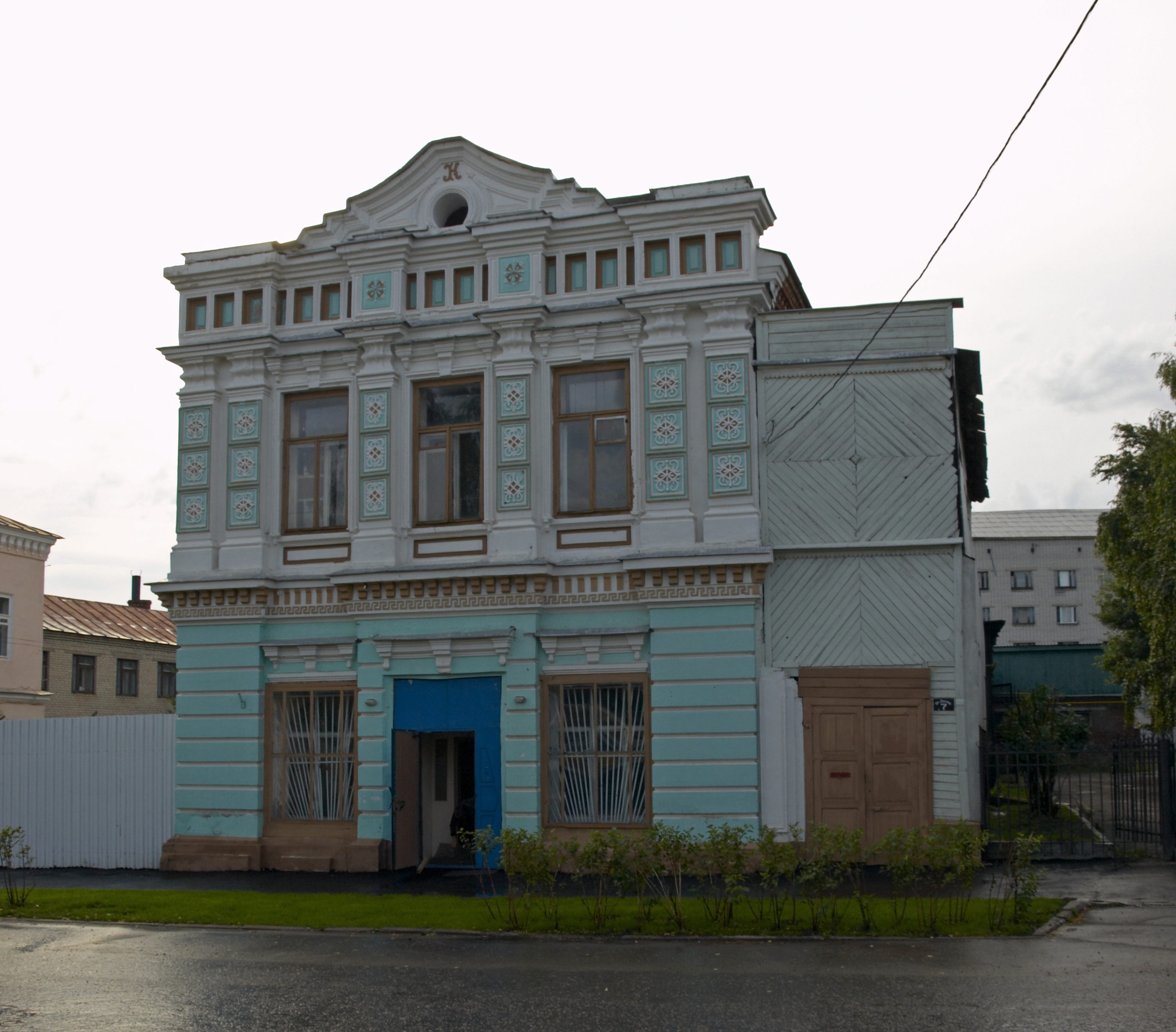 Alatyr, ulitsa Lenina, No. 7. XIX century. An architectural monument, protected by Chuvash Republic